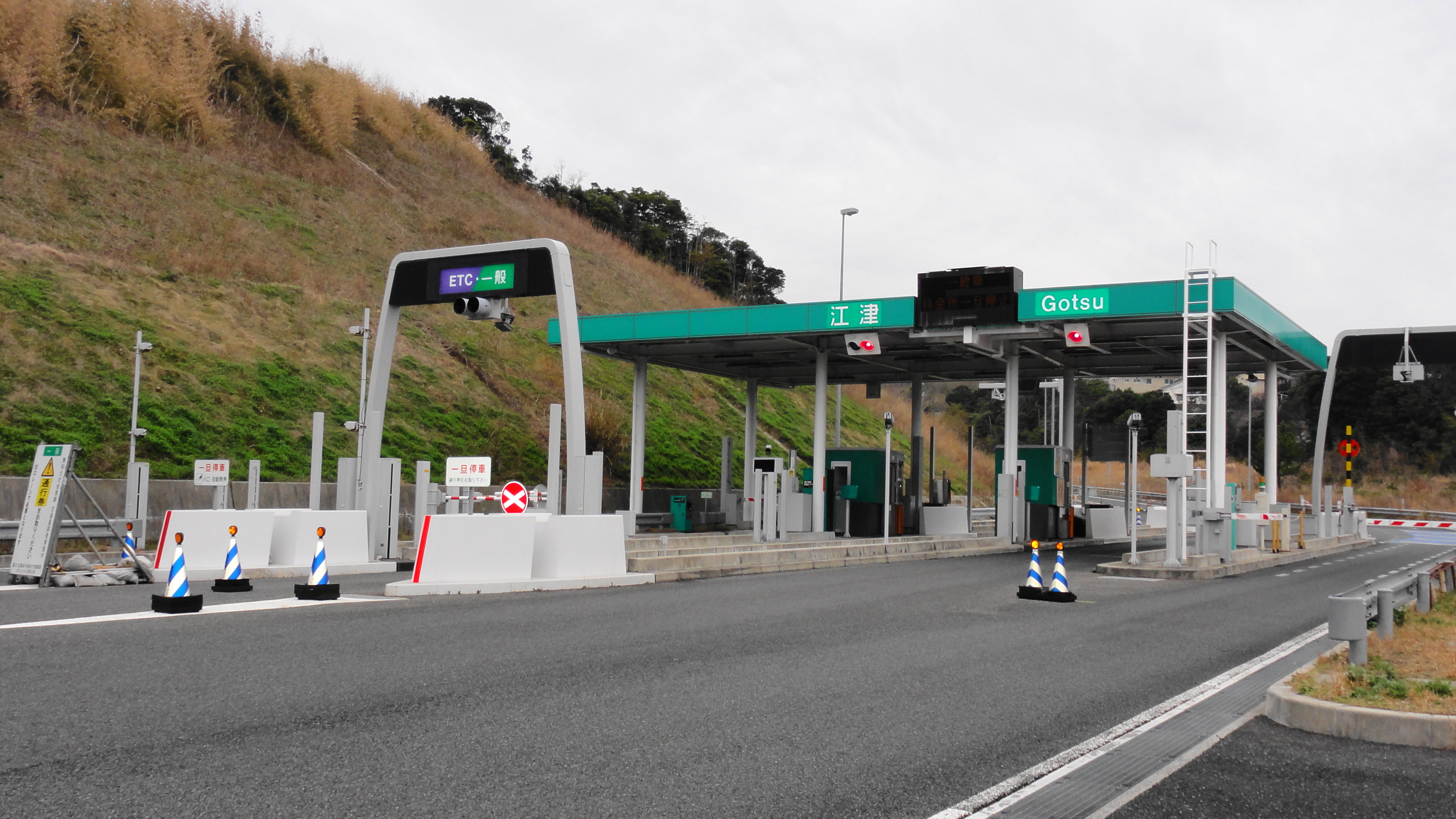 Gotsu Inter Change,Shimane Prefecture, Japan